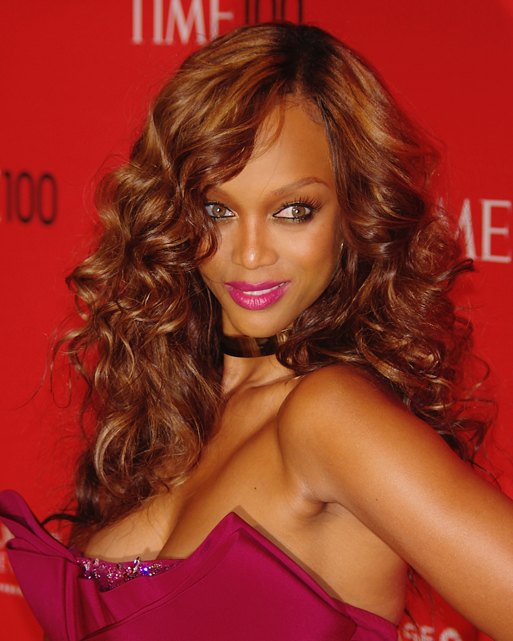 Tyra Banks at the 2012 Time 100 gala.